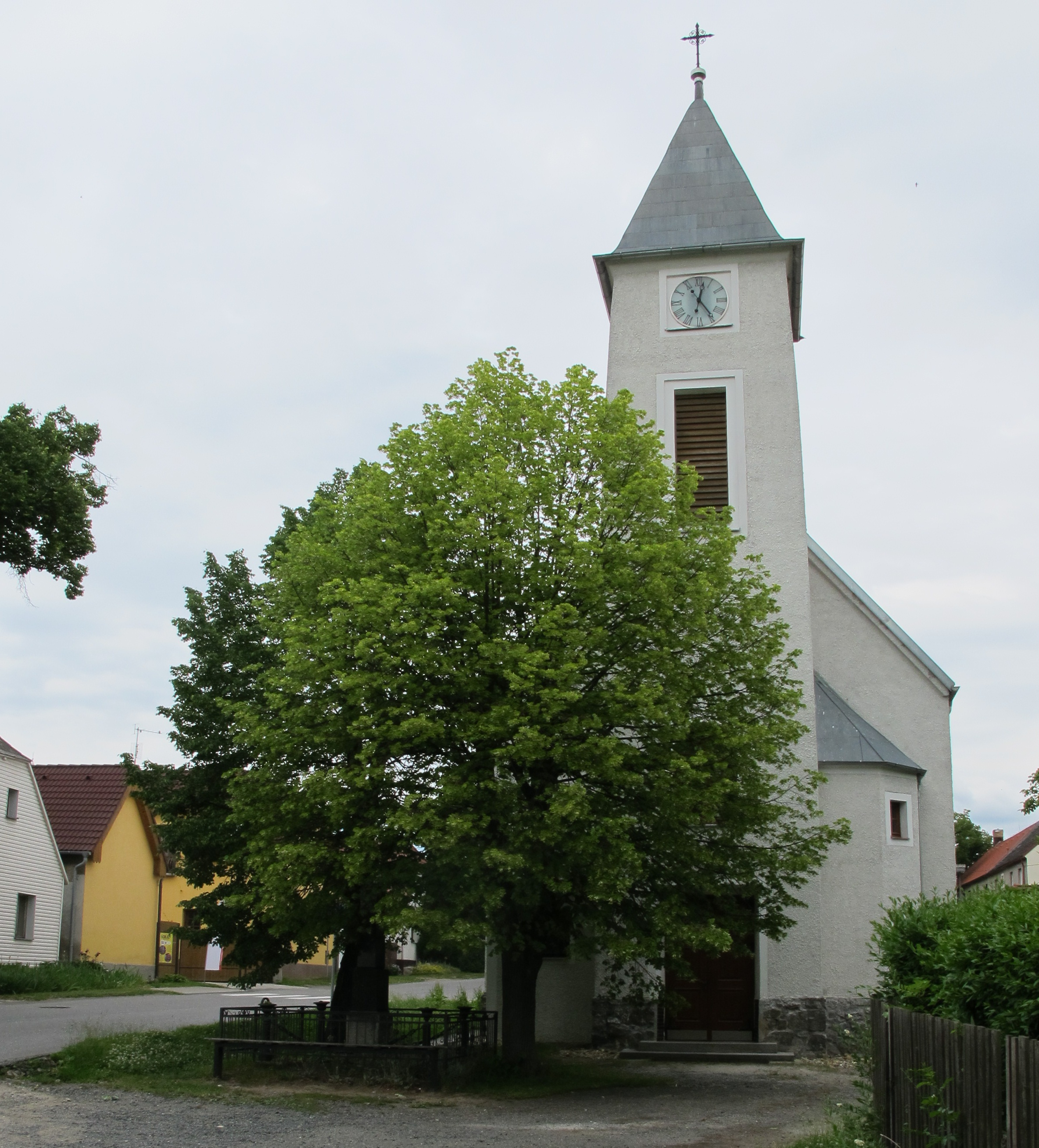 Church in Rosovice in Příbram District